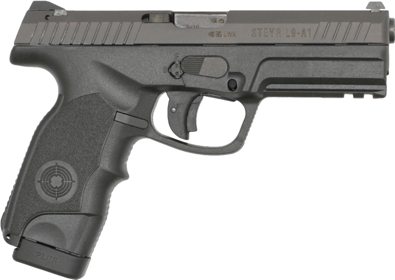 Steyr L9-A1 semi-automatic pistol